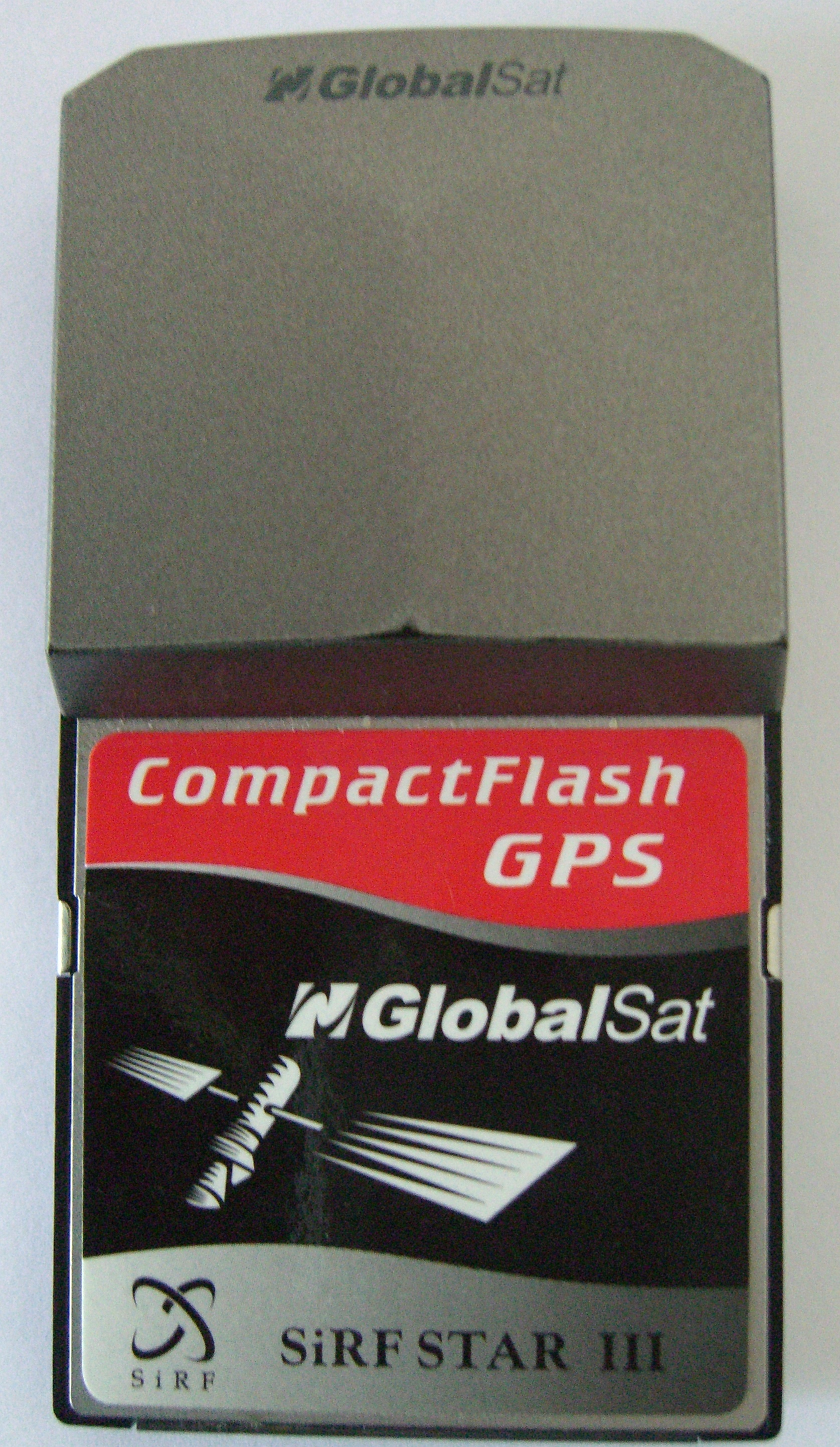 GlobalSat SirfStar III CF GPS receiver